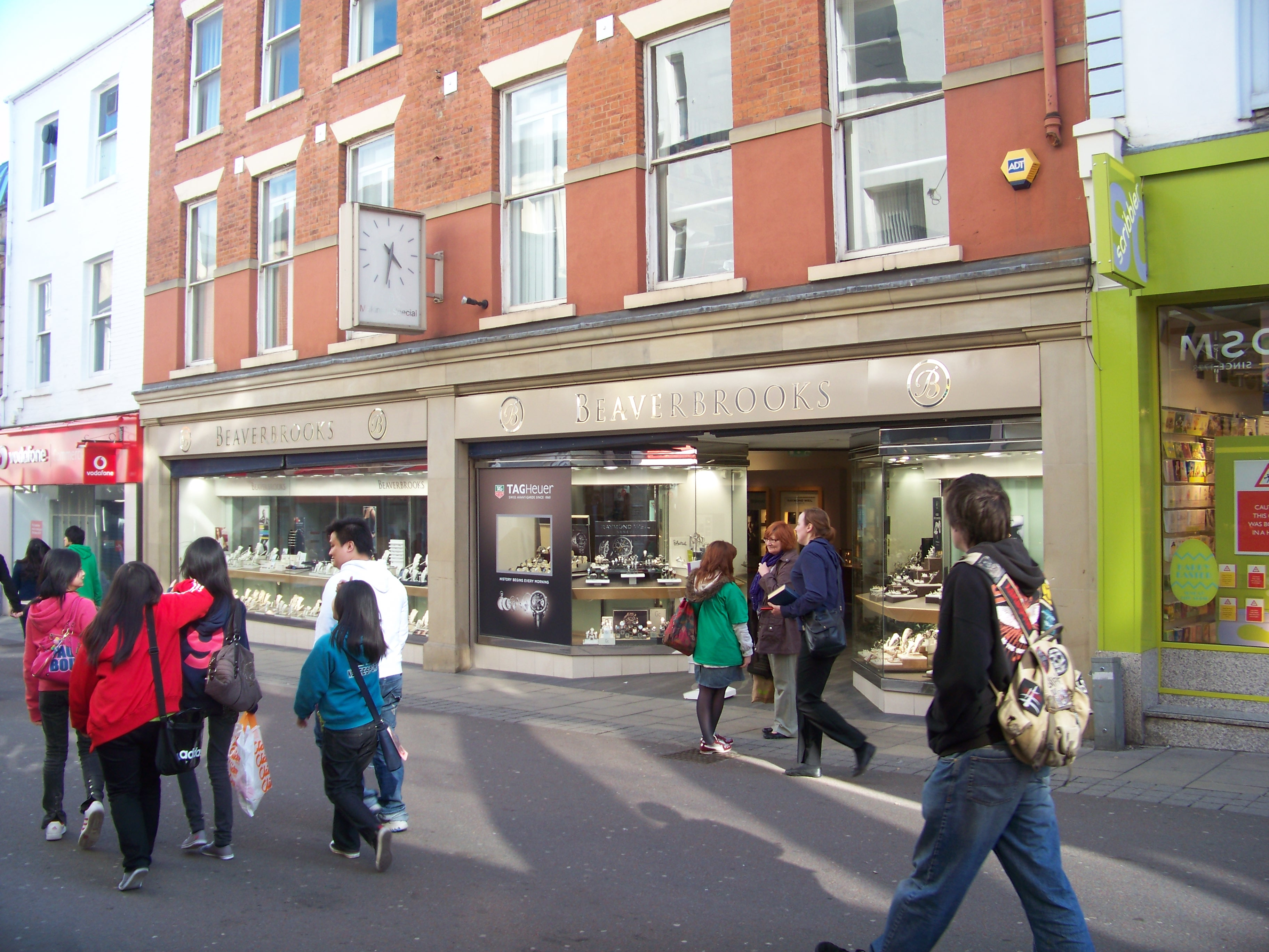 Beaverbrroks jewellers, Commercial Street, Leeds. Taken on the afternoon of Monday the 11th of April 2011.